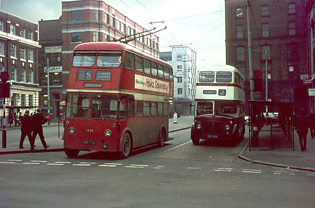 British Trolleybuses - Manchester Stevenson Square was the terminus of trolleybus services to Audenshaw and Stalybridge via Ashton New Road. This was the very last day of trolleybus services in Manchester on 30 December 1966, although a commemorative tour was run the following day. Also seen here is an Oldham Corporation bus; this is before the days of the SELNEC (later Greater Manchester) PTE when there was still a great variety of municipal operators running into central Manchester. Today the scene is dominated by the big groups First and Stagecoach. For a slide show of British Trolleybuses in the late 60s Trolleybus 1336 was a 1955/56 BUT 9612T with a body by Burlingham.